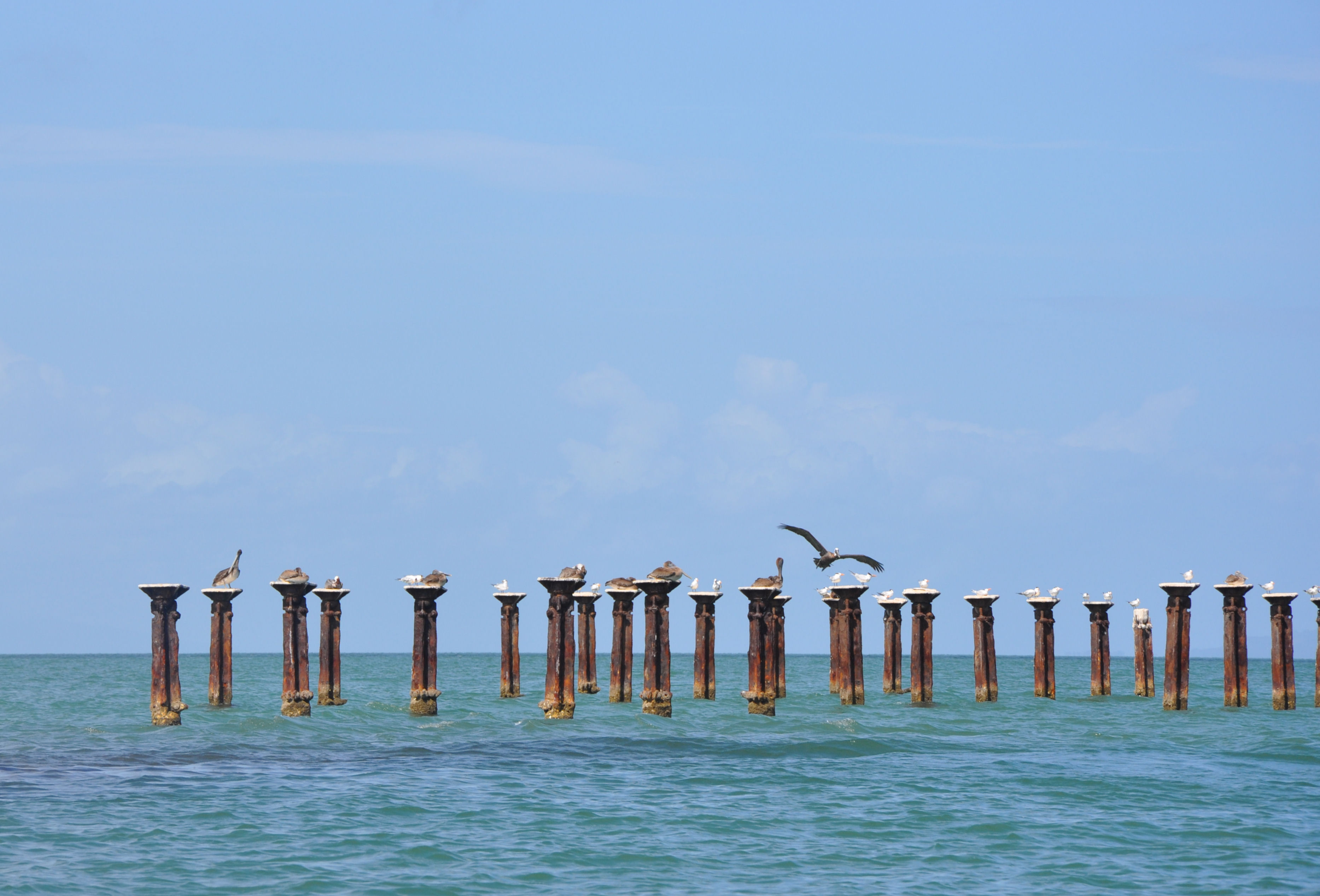 Old railway in the Los Haitises Park (San Lorenzo bay)